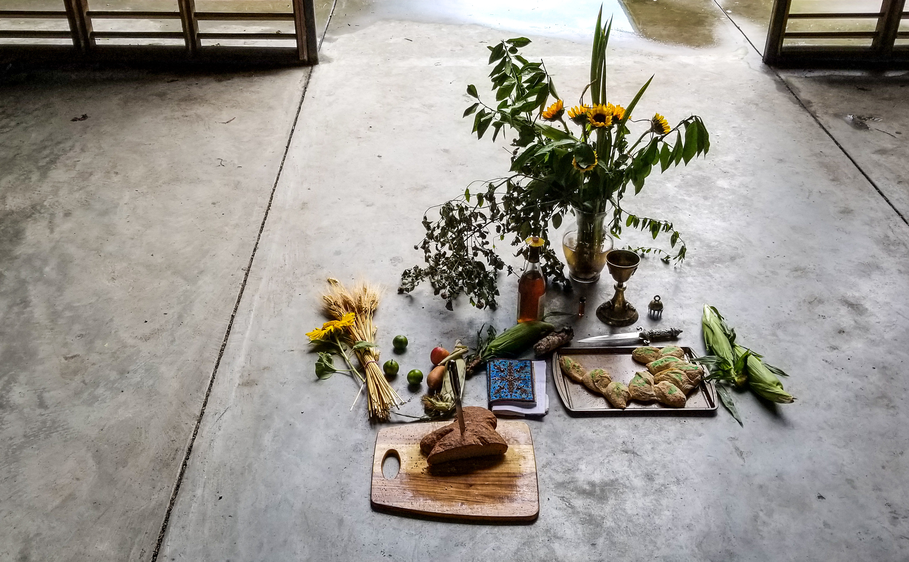 Lammas Altar New Orleans 2019